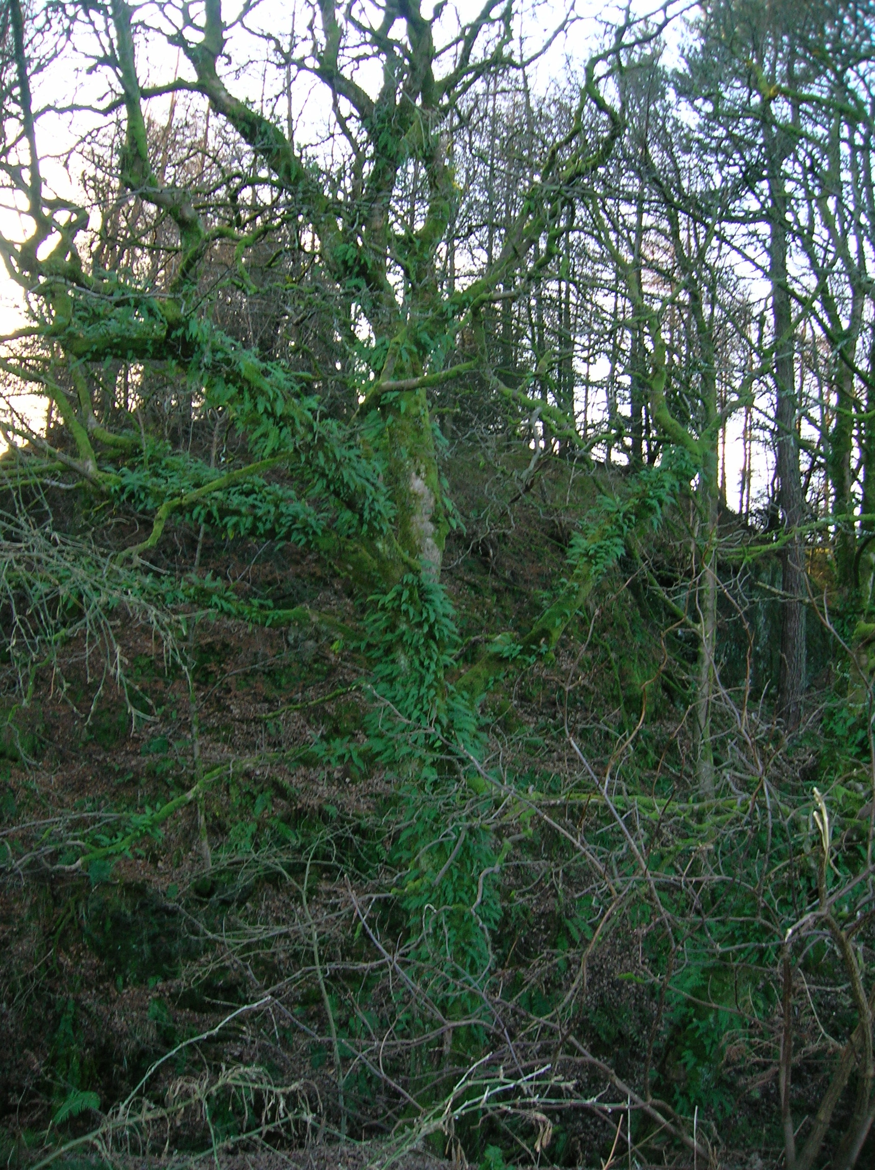 A Sycamore with epiphytic Common Polypody ferns in abundance. Ladyland Burn, Kilbirnie, North Ayrshire, Scotland.